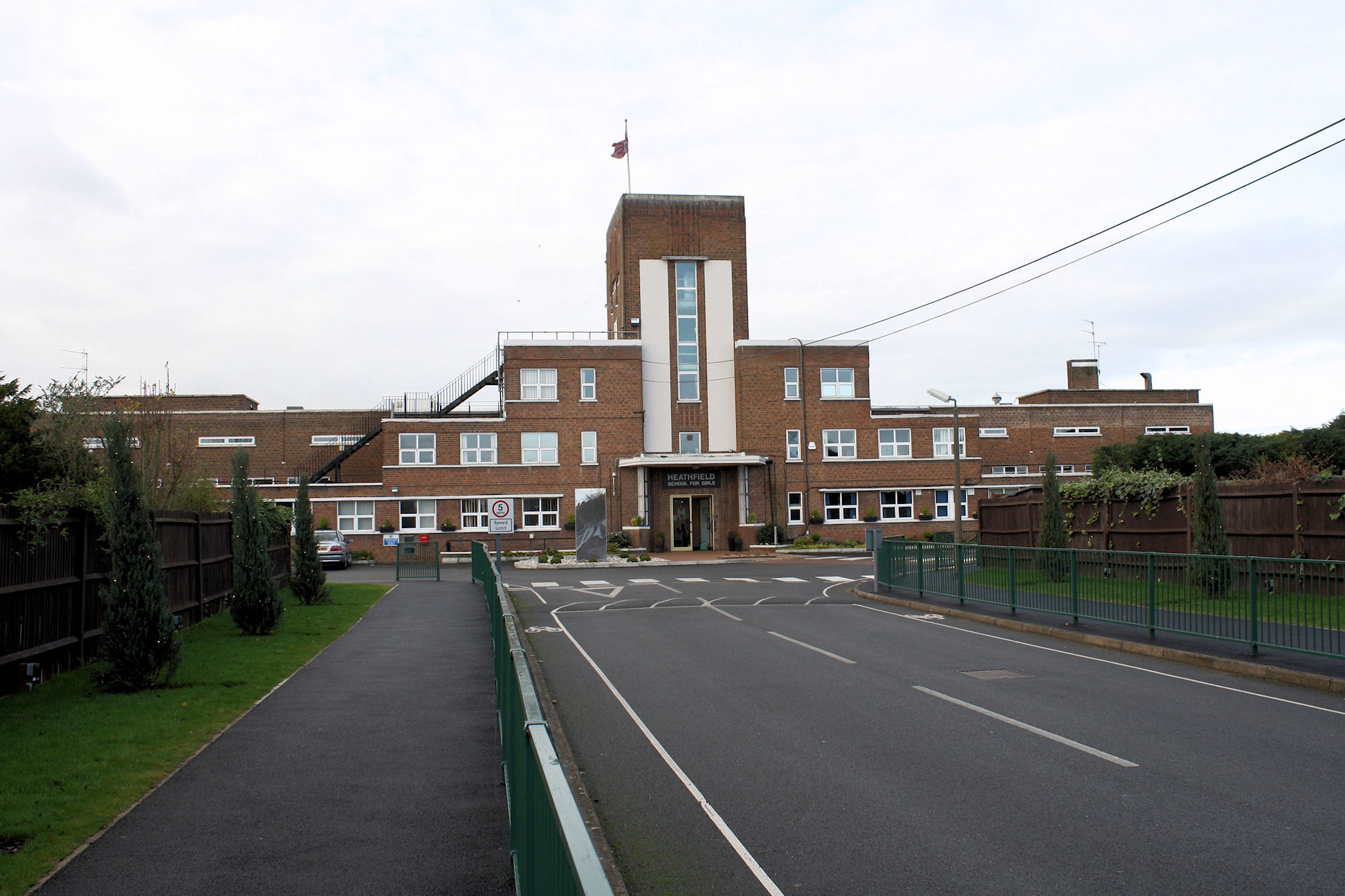 Heathfield School is a private school for girls. It was founded in 1900 in a house in College Road, Harrow. There were then only thirty pupils but, over the years, pupil numbers increased and the house was progressively extended. But, in 1982, it became obvious that larger premises were required. A move was made to the building in Pinner shown in the photo that had previousl been a state school. The College Road premises were demolished to make way for St Ann's Shopping Centre. The Pinner establishment had been founded in 1937 as Pinner County Grammar School. It later became Pinner Junior College and finally Pinner Sixth Form College. Famous Pinner County pupils included Reg Dwight (aka Elton John) Simon Le Bon, Ron Goodwin and Gordon Beck all famous musicians, although the school was not especially music focussed. The actor Tony Jay was a pupil in the early 1940s, as were writers Bill Gunston and Wendy Holden (aka Taylor Holden), writer and broadcaster Gay Search and footballer David Jones. An open day for former Pinner students is held every year on the first Saturday after the first bank holiday in May.